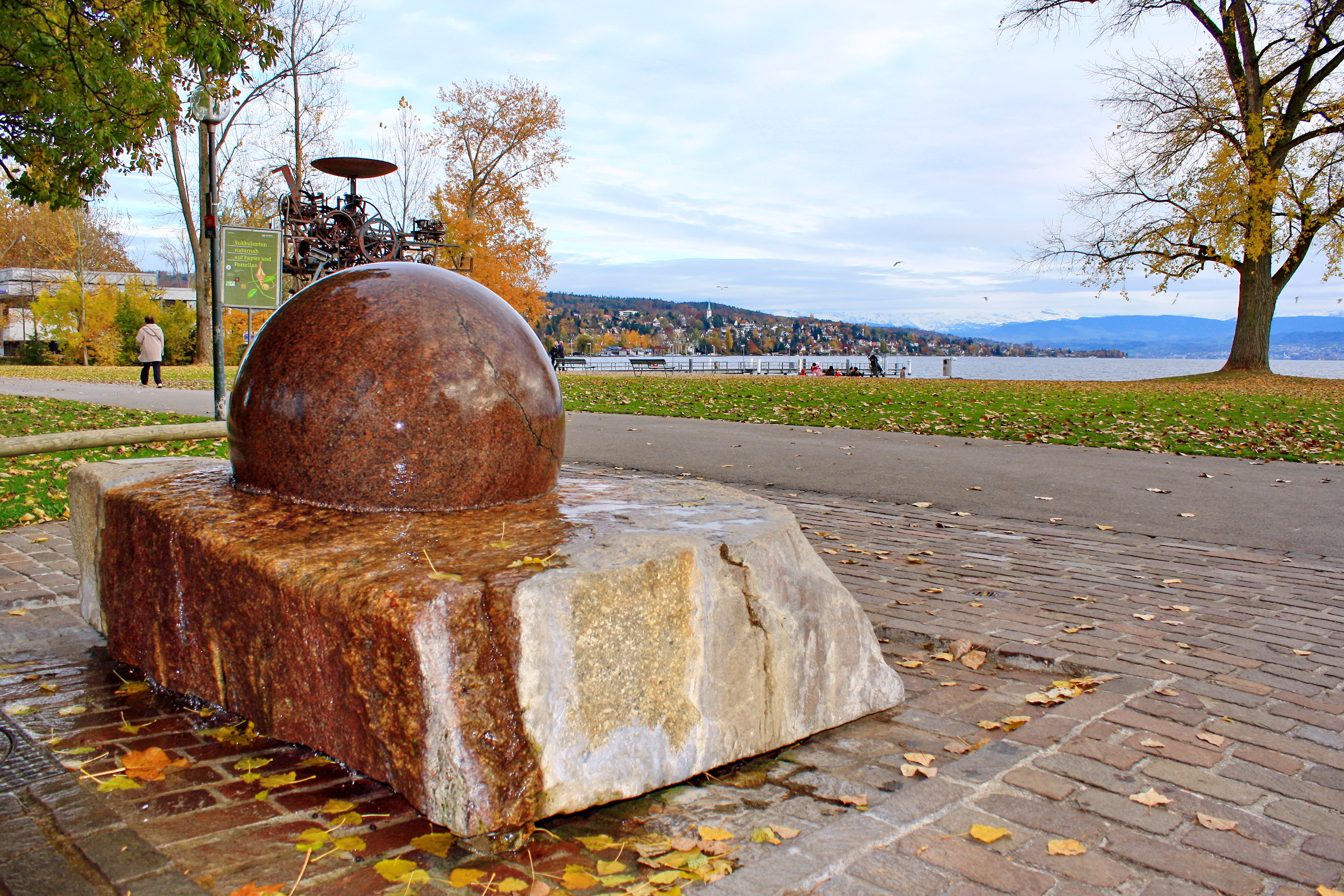 So-called Kugelbrunnen fountain of the Phönomena (1984) at Zürichhorn in Zürich-Seefeld (Switzerland)